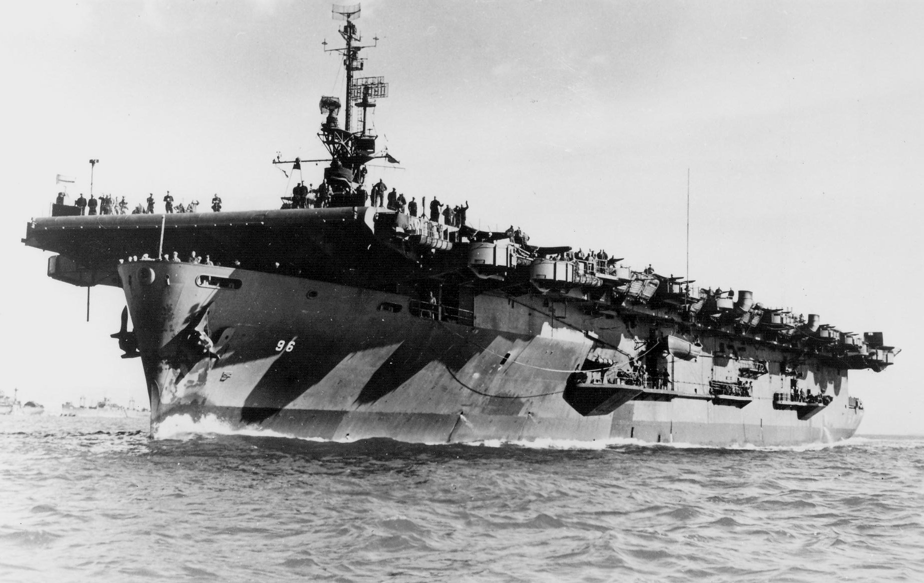 The U.S. Navy escort carrier USS Salamaua (CVE-96) underway off San Francisco, California (USA). Salamaua was one of the few CVEs fitted with the SC-2 air search radar, and not SK-1 (mast, aft). Also note the SPS-4 radar (original designation SG-6) on the mast platform (forward).